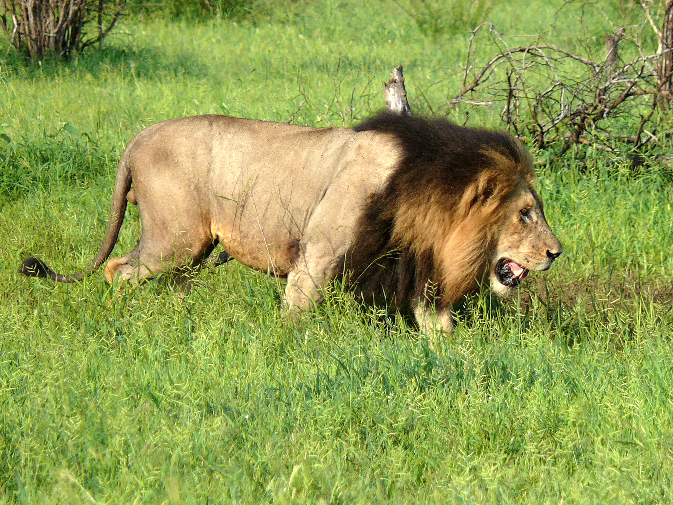 H7 West of Satara, Kruger NP, SOUTH AFRICA